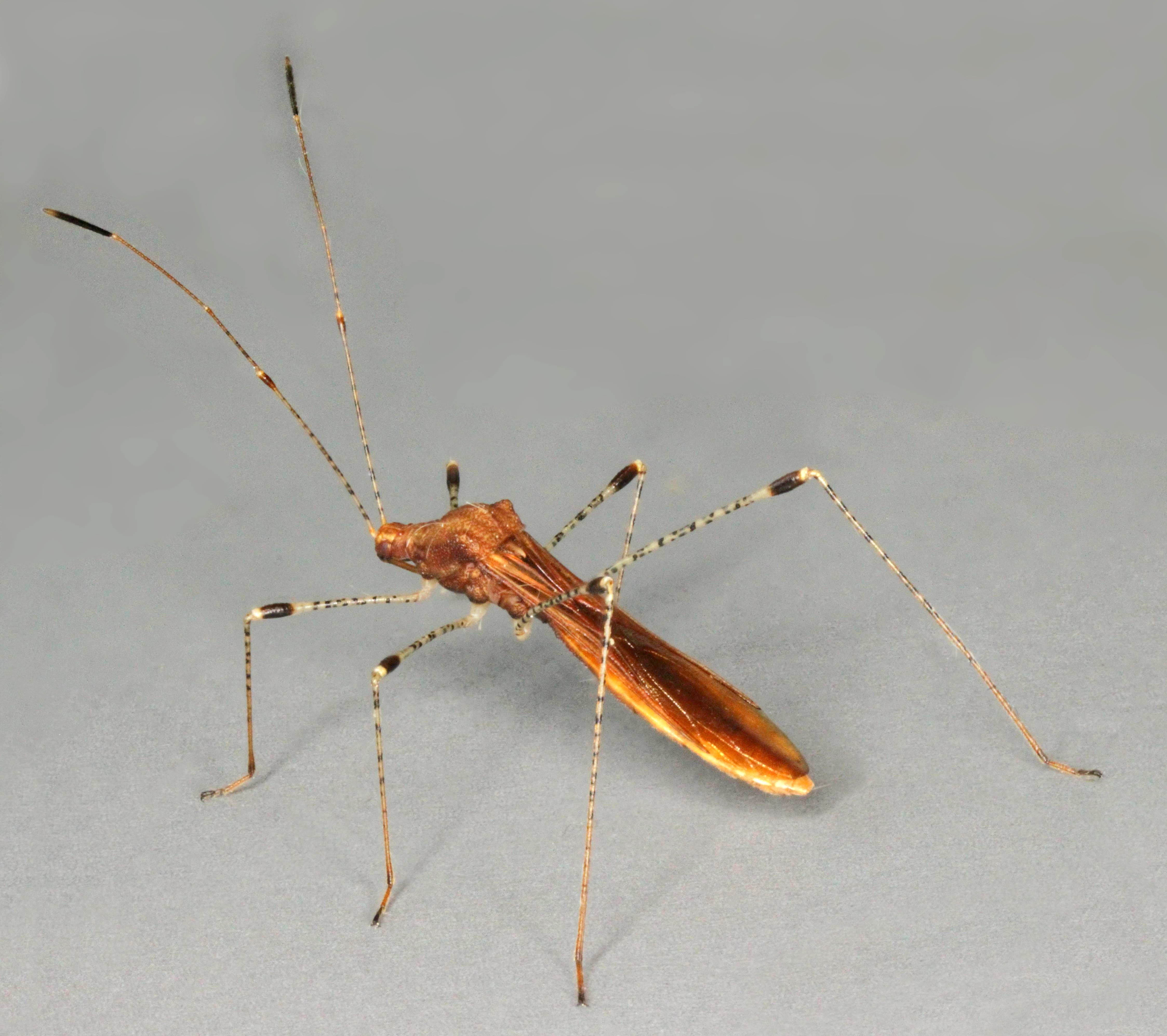 Metatropis rufescens, Eyarth Rocks, North Wales, May 2012